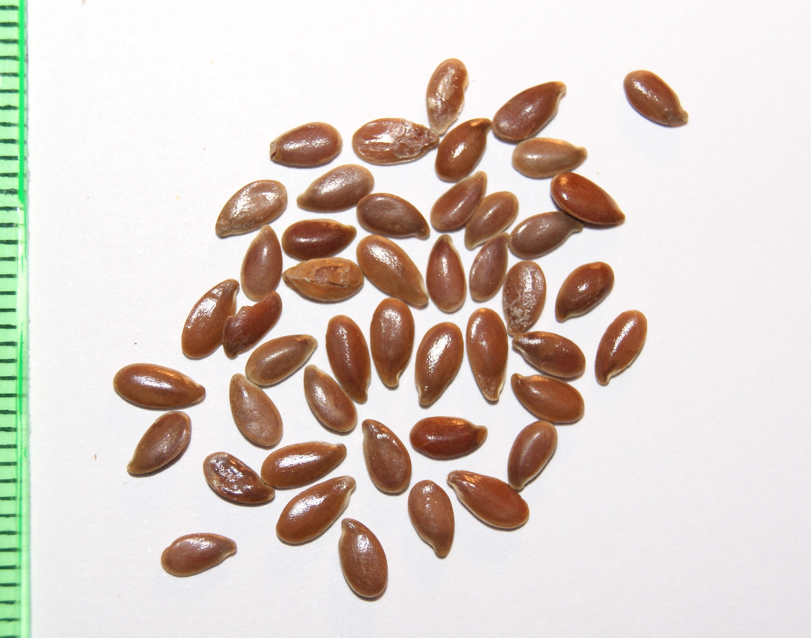 Linum usitatissimum